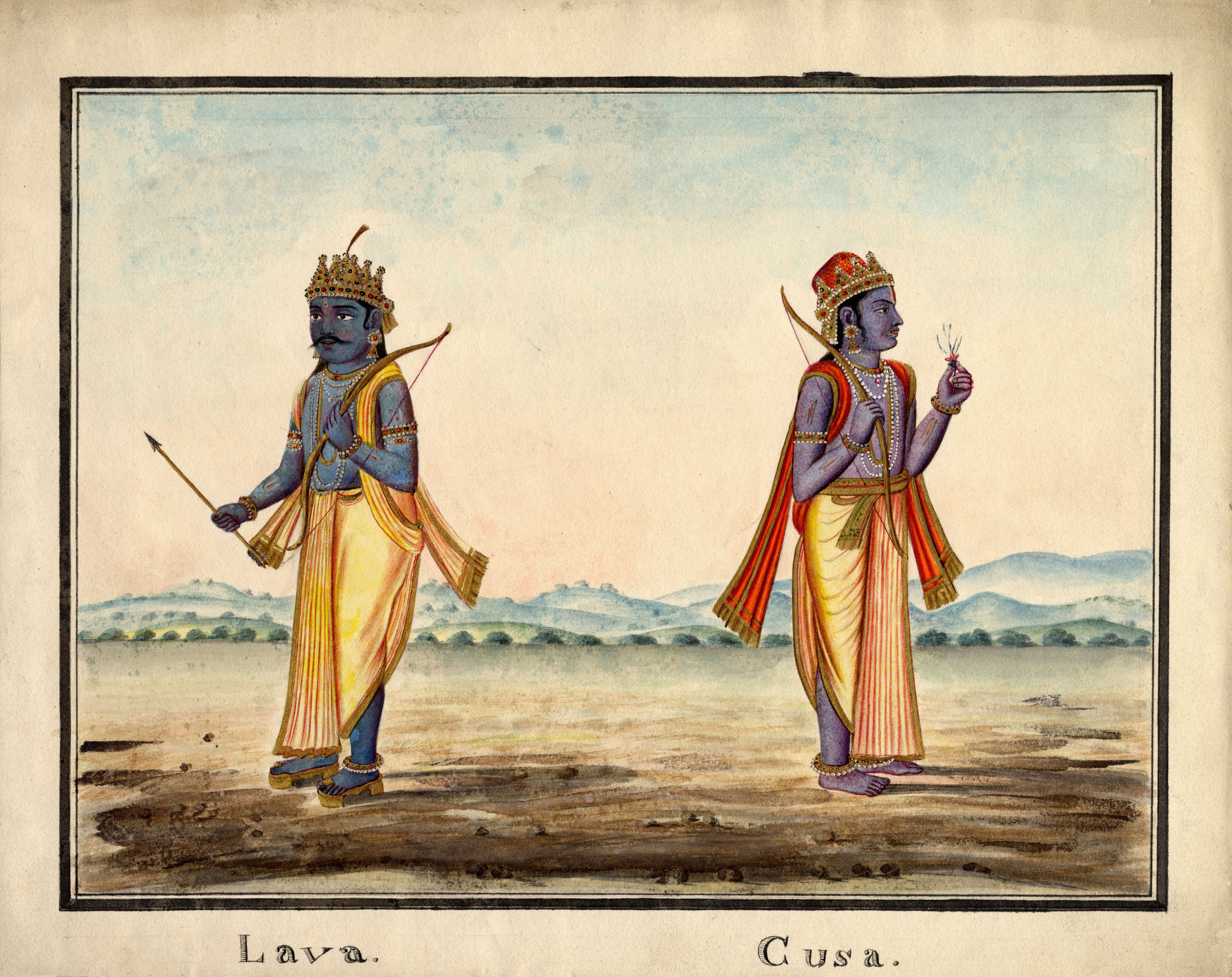 Lava and Kusa, the sons of Rāma. Both figures are shown standing and have two arms and blue skin. They wears yellow dhoti’s and are crowned. Lava, on the left is shown holding a bow and arrow with a yellow shawl draped over his shoulders. Kusa, on the right is shown holding a bow and a flower with a red shawl over his shoulders. Both men wear necklaces, armlets and have sectarian marks drawn on their arms and chests. Lava is shown wearing wooden sandals on his feet whilst Kusa is barefoot. In the distance behind the pair are shown hills and trees. The painting is surrounded by a black border.